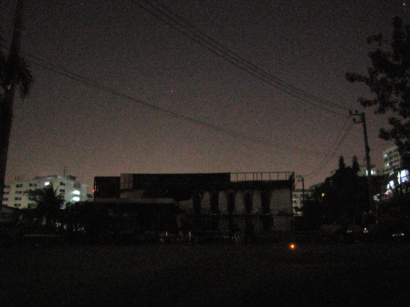 The former Santika Club nightclub in Bangkok after the fire.